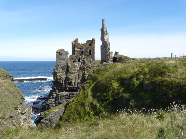 Castle Sinclair at Girnigoe, Noss Head